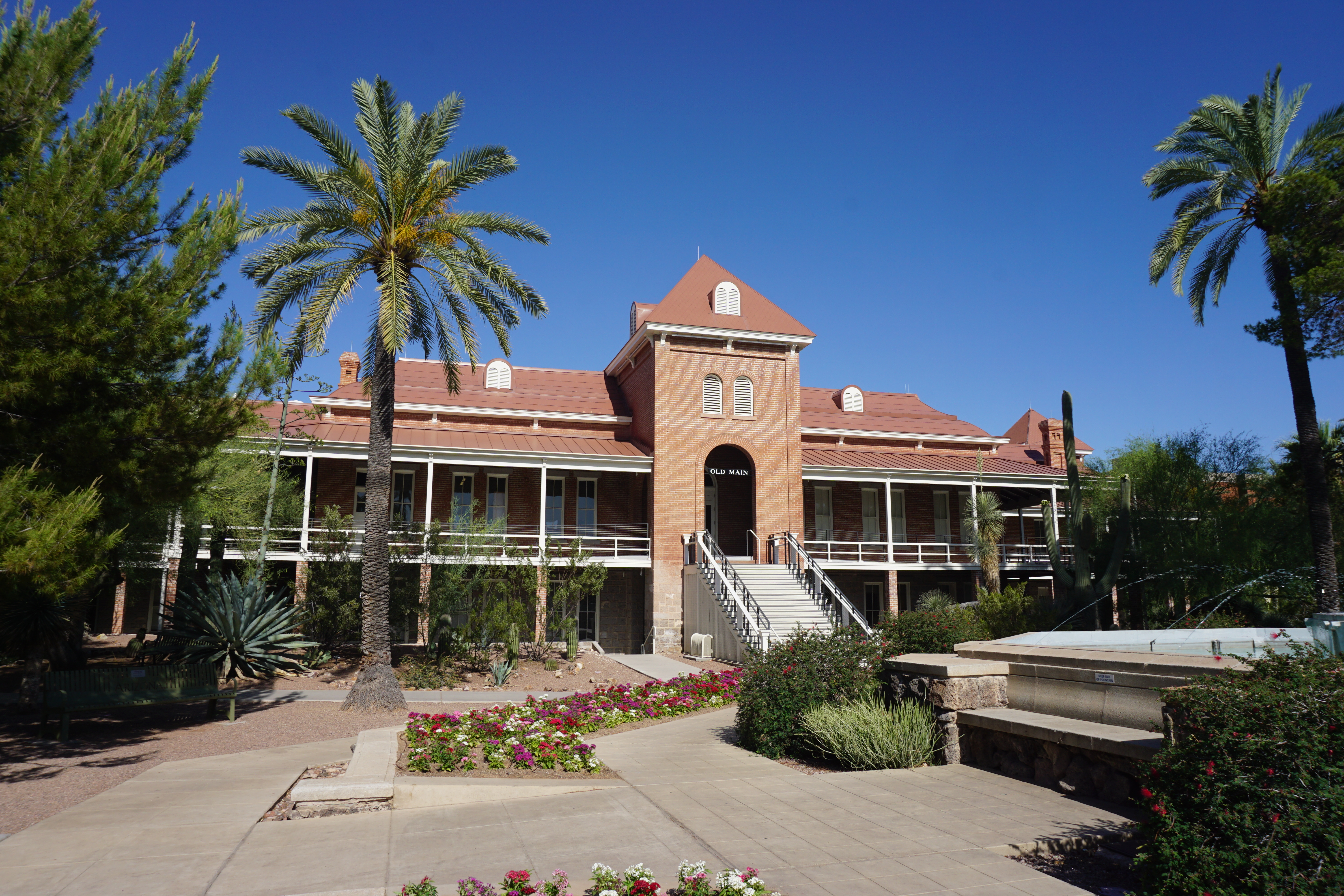 Old Main on the campus of the University of Arizona in Tucson, Arizona (United States).